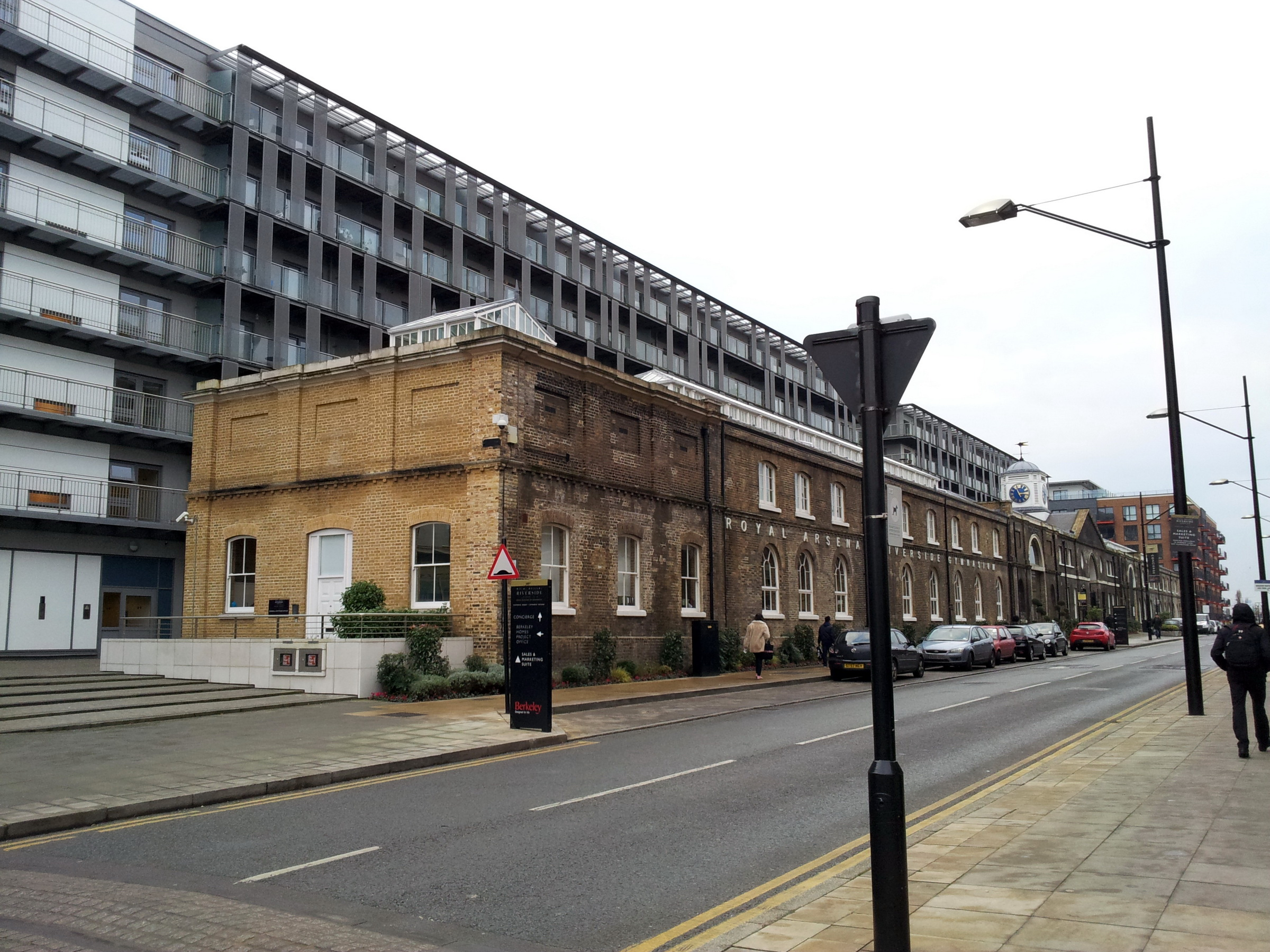 View towards the west of Duke of Wellington Avenue in Royal Arsenal, Woolwich, South East London. The old building was once the Royal Carriage Mews, now a gymnasium.